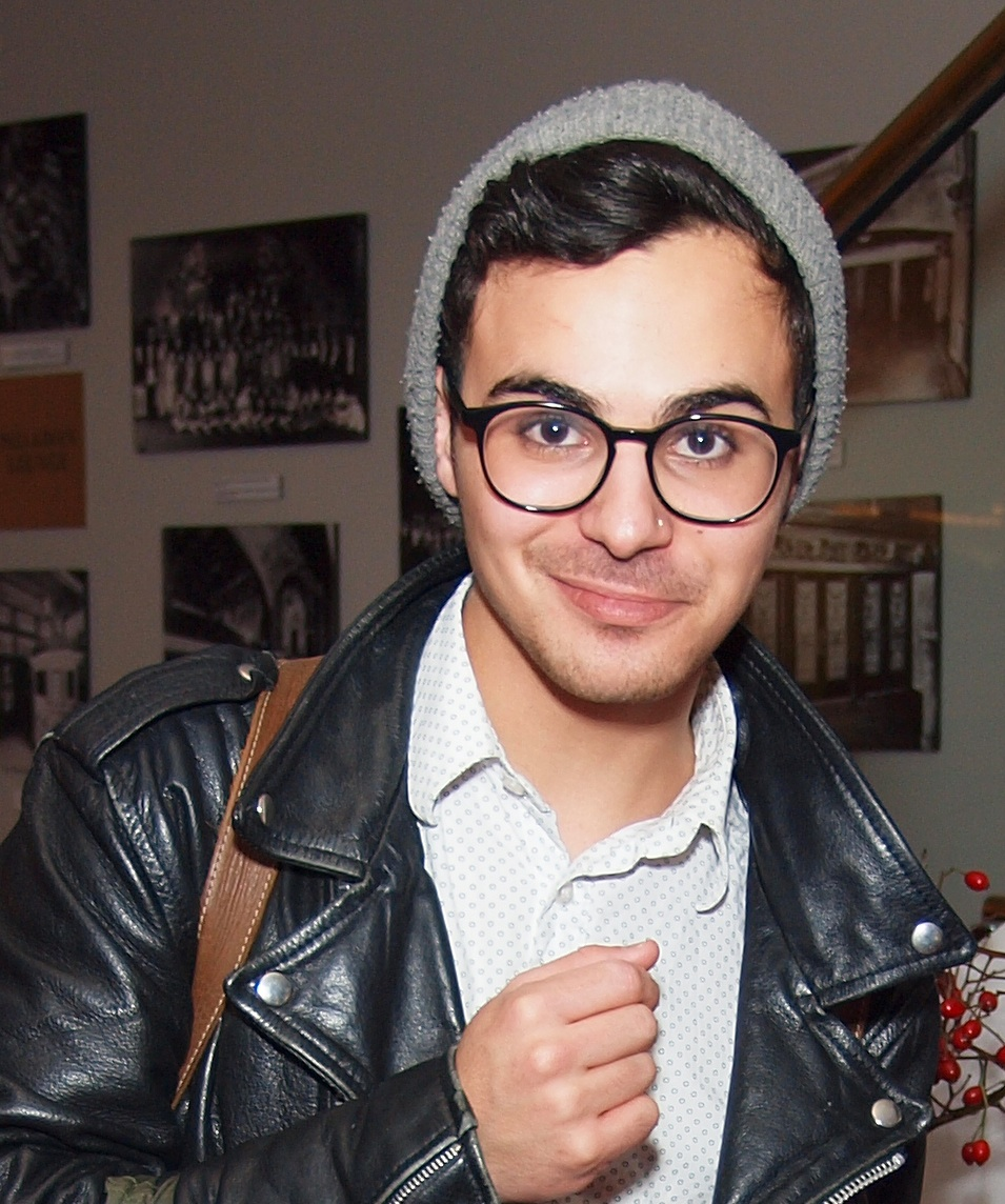 Adamo Ruggiero at the 2010 Gemini Awards